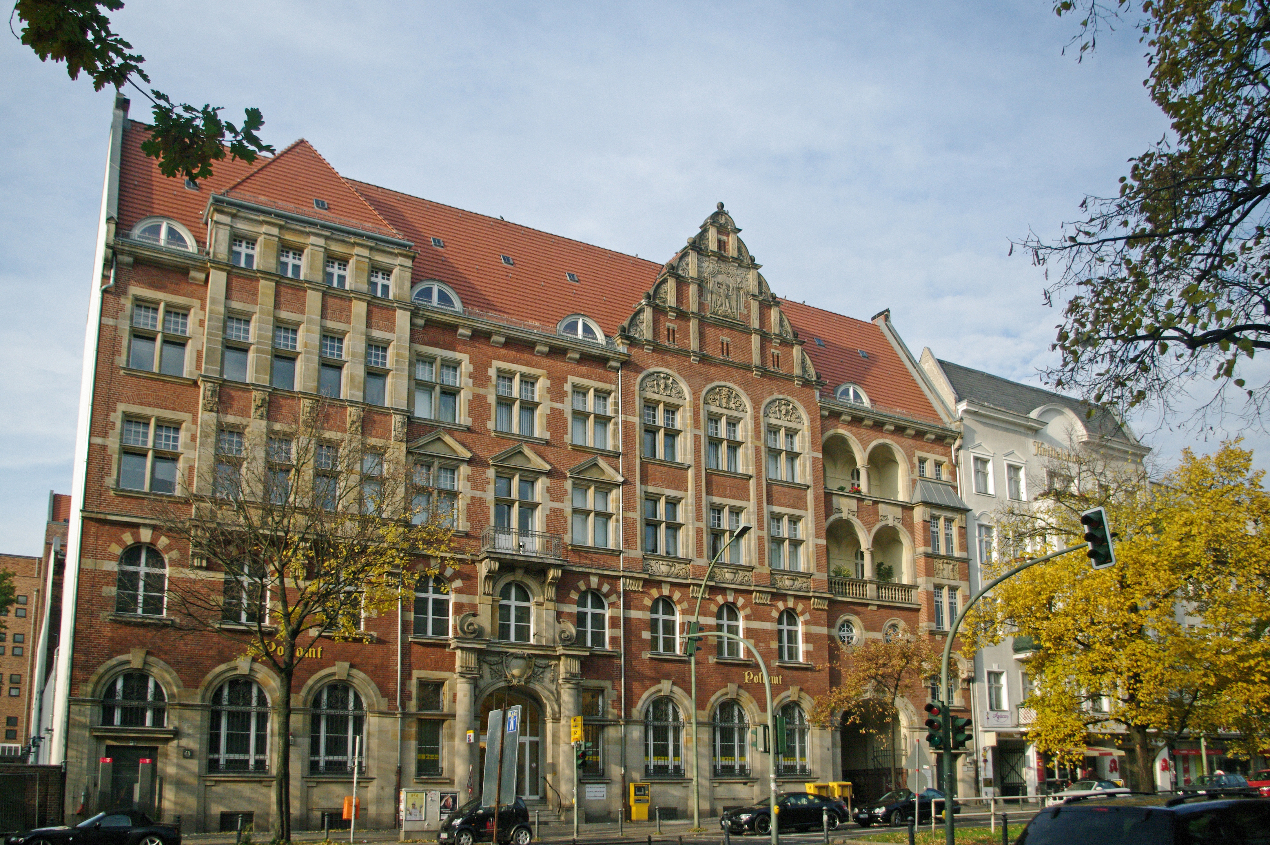 Hauptstrasse 27, Berlin Schoeneberg Old Post Office